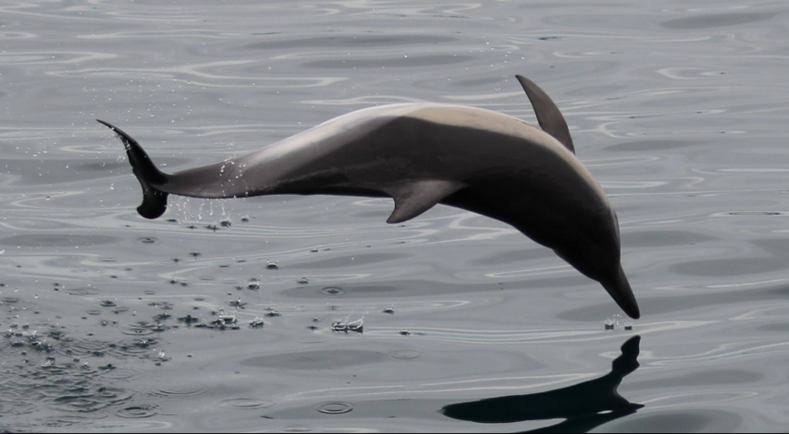 Common dolphin taken by Graham Hesketh of Dolphin Safari